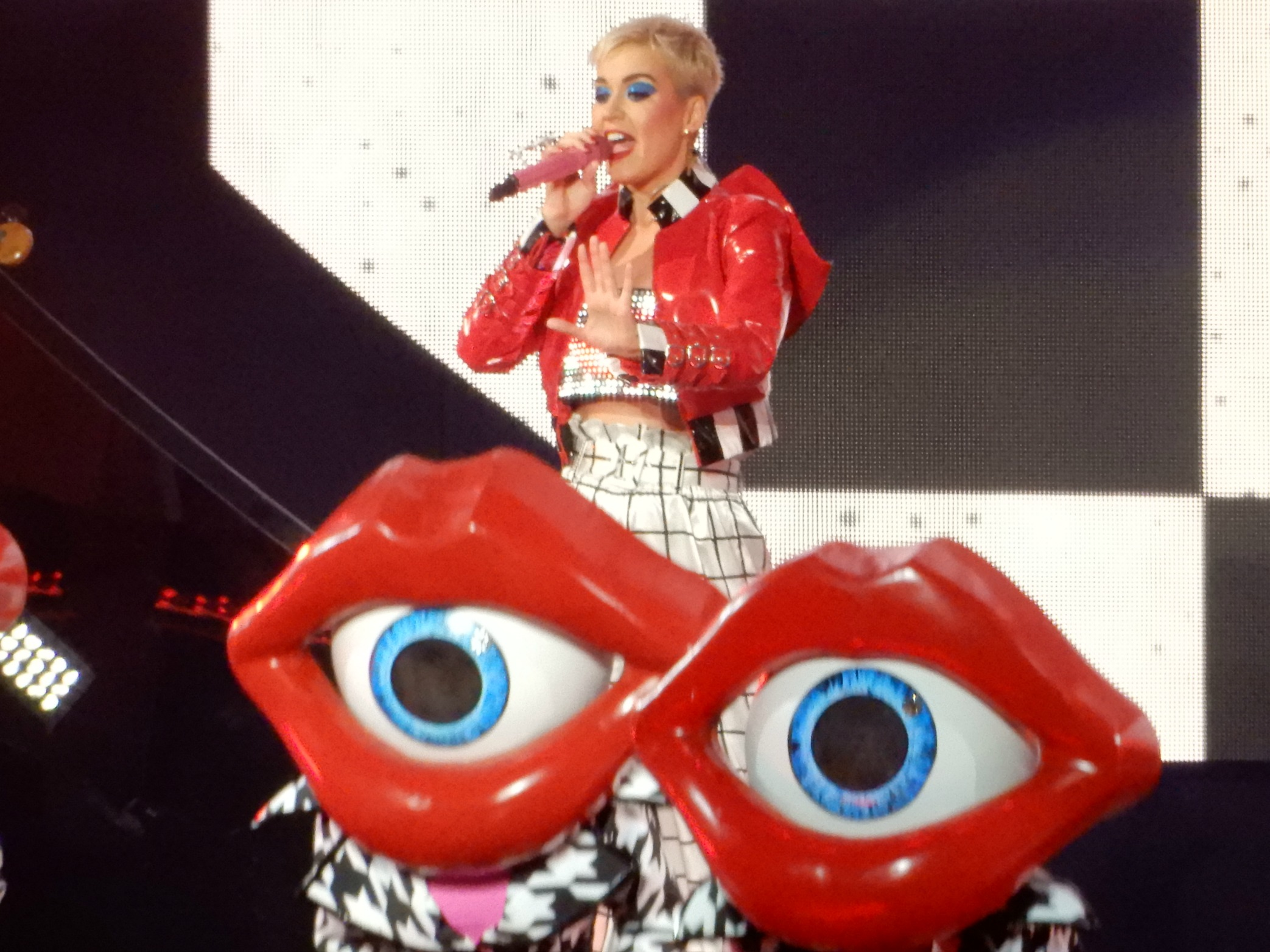 Katy Perry at Madison Square Garden